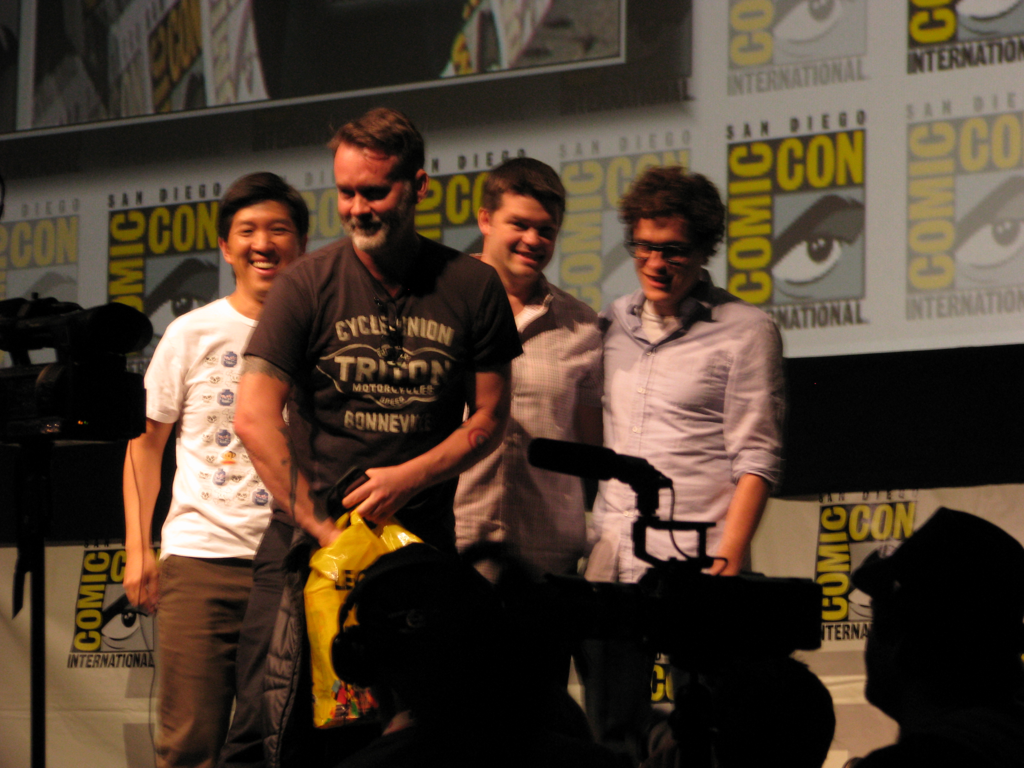 The crew from the Lego The Movie panel